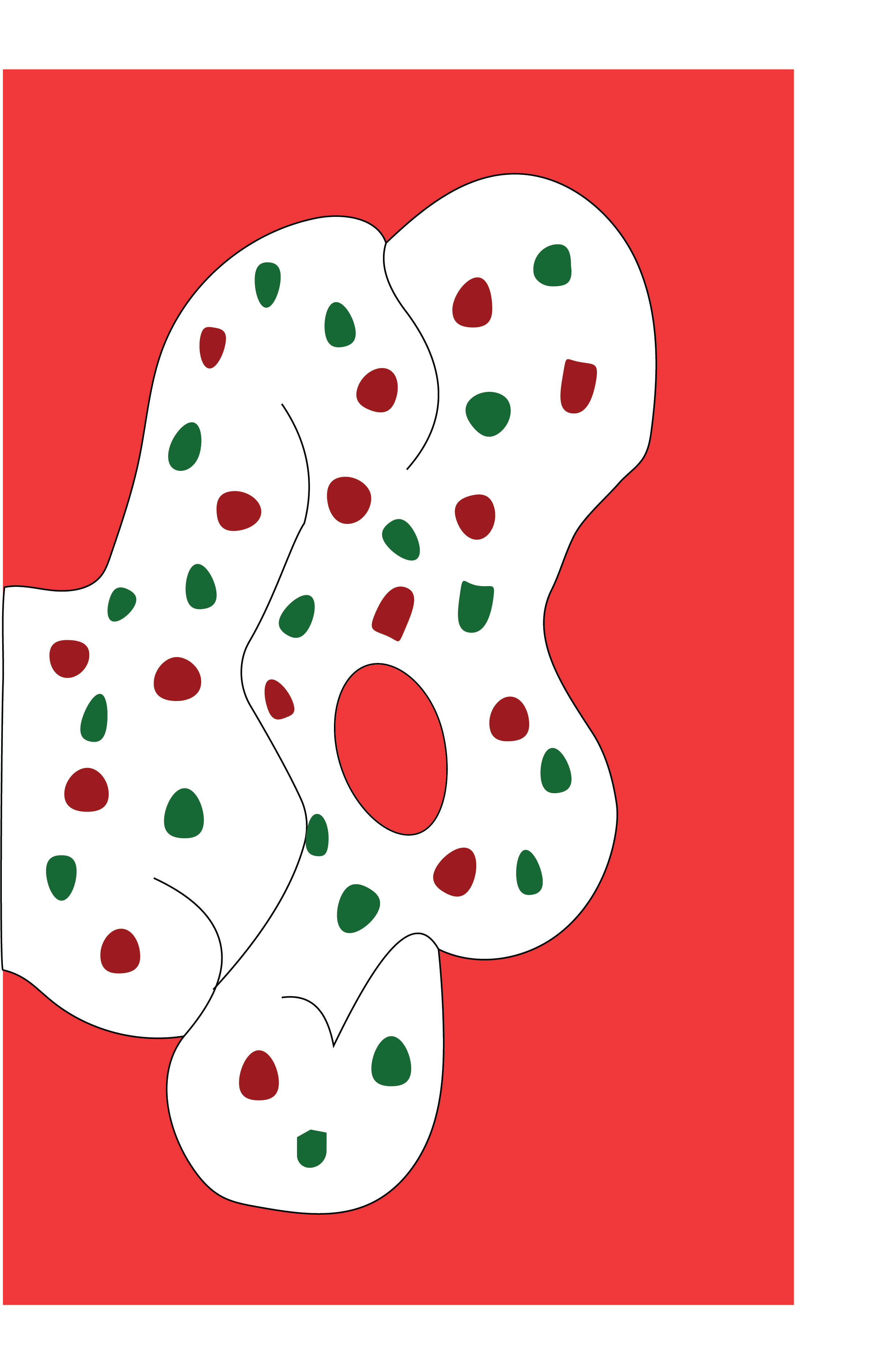 Based on David Nicolle "Armies of the Muslim Conquest" illustrations by Angus McBride. And Martin Hinds "The Banners and Battle Cries of the Arabs at Siffin" Al-Abhath XXIV